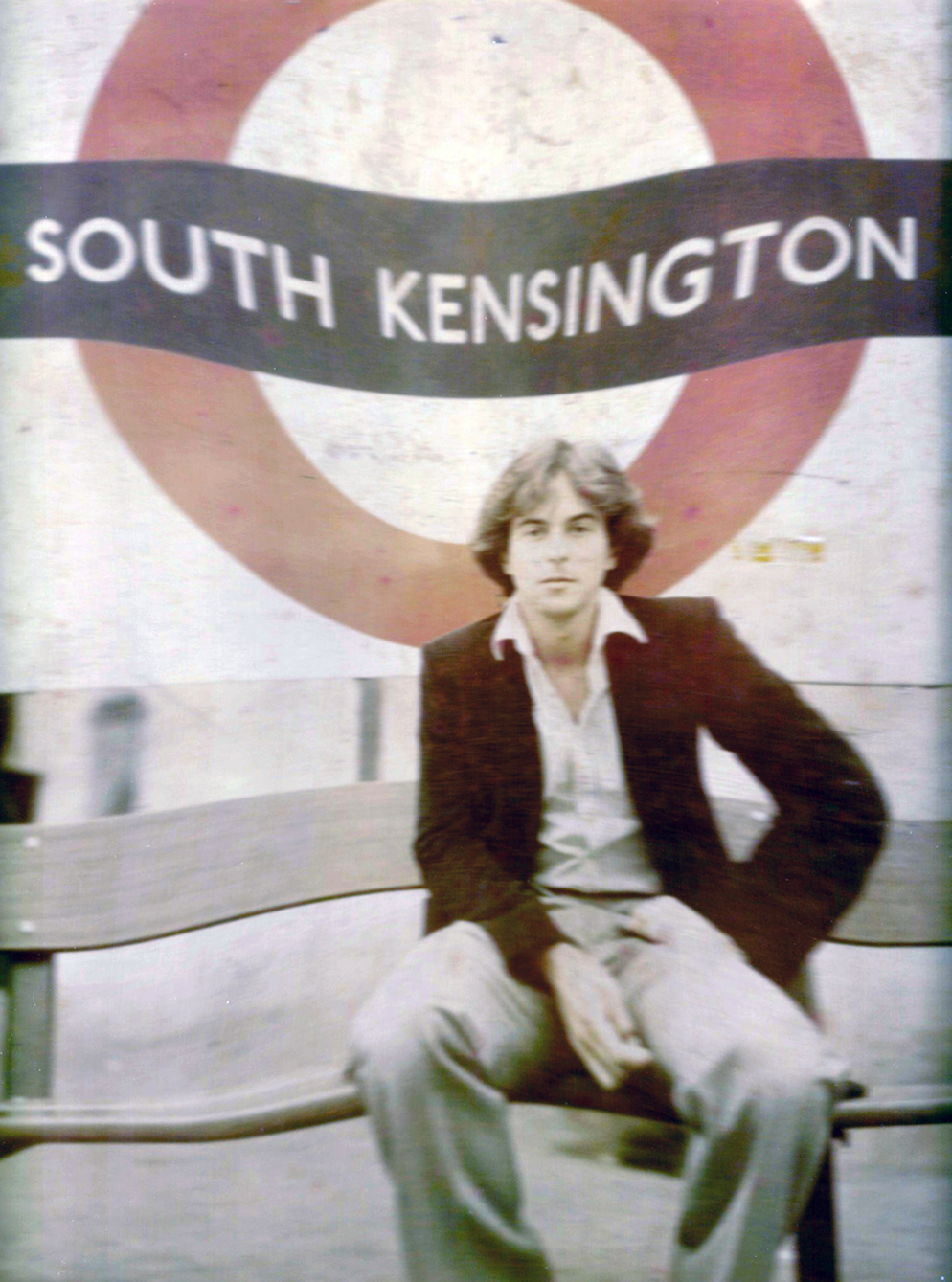 Self-portrait of Sérgio Valle Duarte: Bio Art, Multimedia, photography, electrophotography.